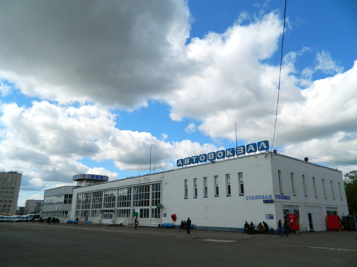 Ufa South Coach Terminal